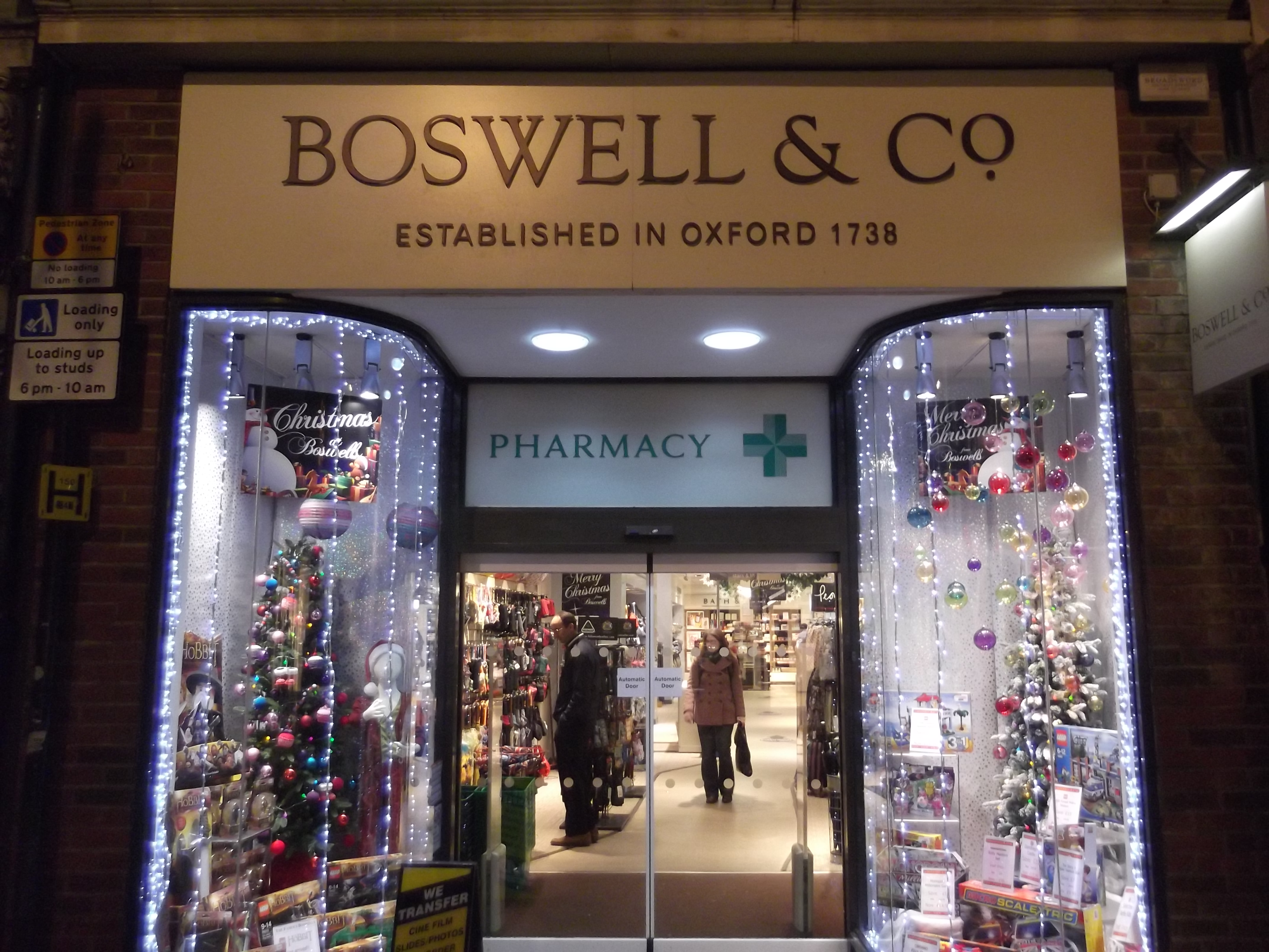 The entrance of Boswells shop at night on Cornmarket Street, Oxford, England.